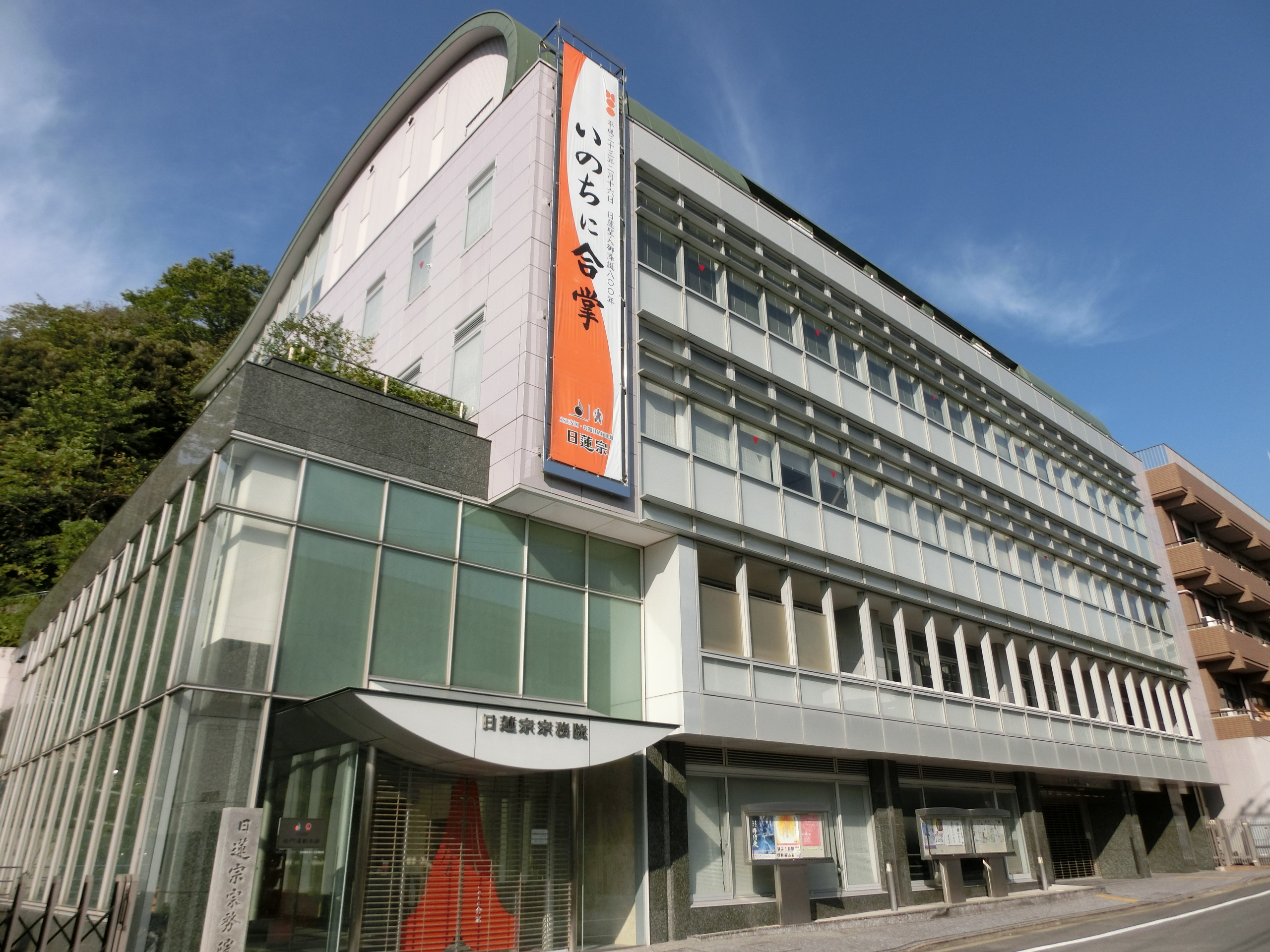 Nichirenshu Shumuin (Headquarters)